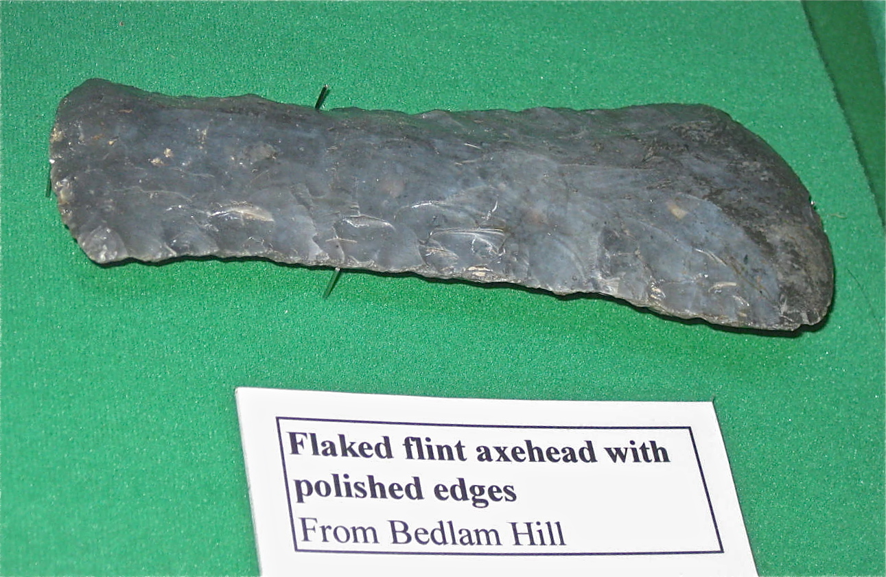 Flint Axe, Wisbech Museum. From Bedlam Hill. This is a 'Seamer' Yorkshire type. Late Neolithic